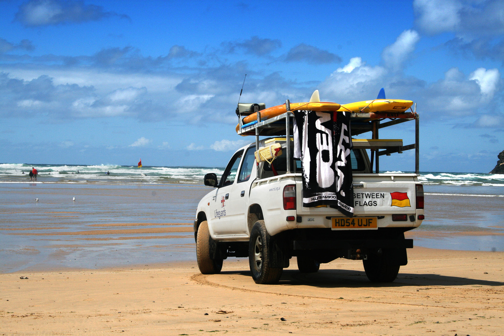 Lifeguard's vehicle equipped with Lifeguarding gears:radio, two rescue boards, a rescue tube on the left side. Cornwall, England.Lifeguards on duty